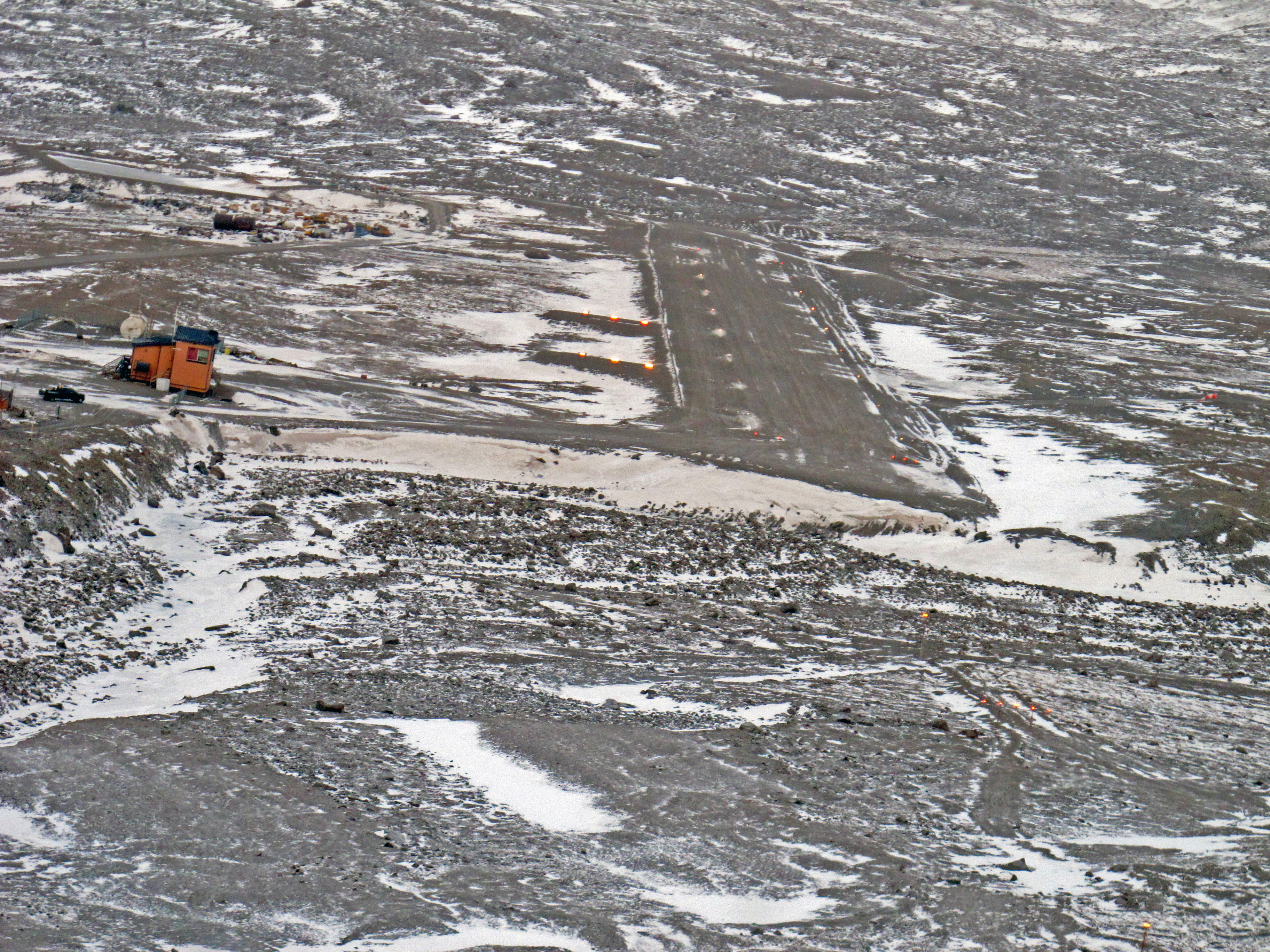 on final apprroach at Grise Fiord